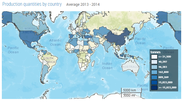 Pepper production map FAOSTAT 2014